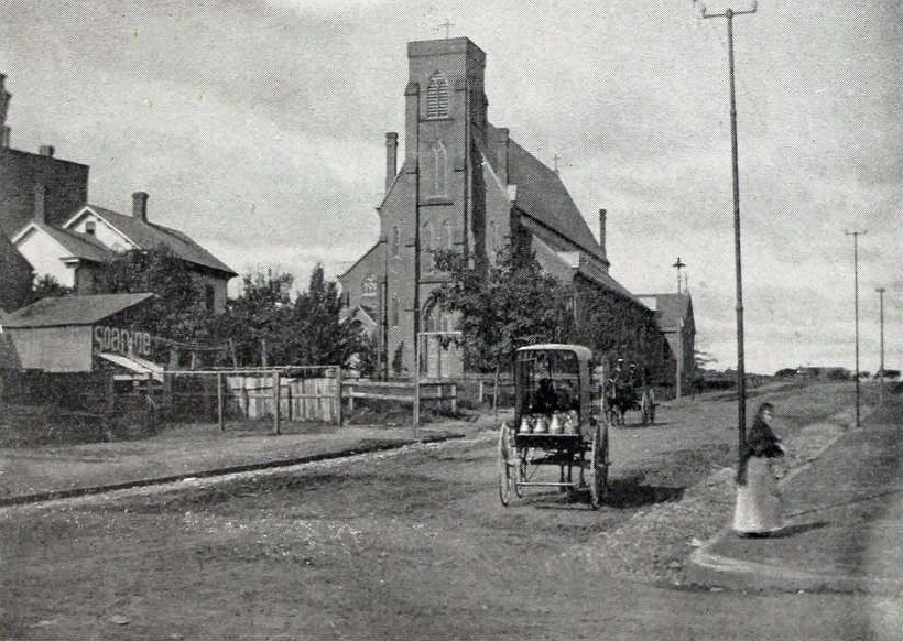 The Sacred Heart Church, indirect namesake of the Churchill neighborhood of Holyoke, Massachusetts in the 19th century prior to the construction of its steeple's spire.